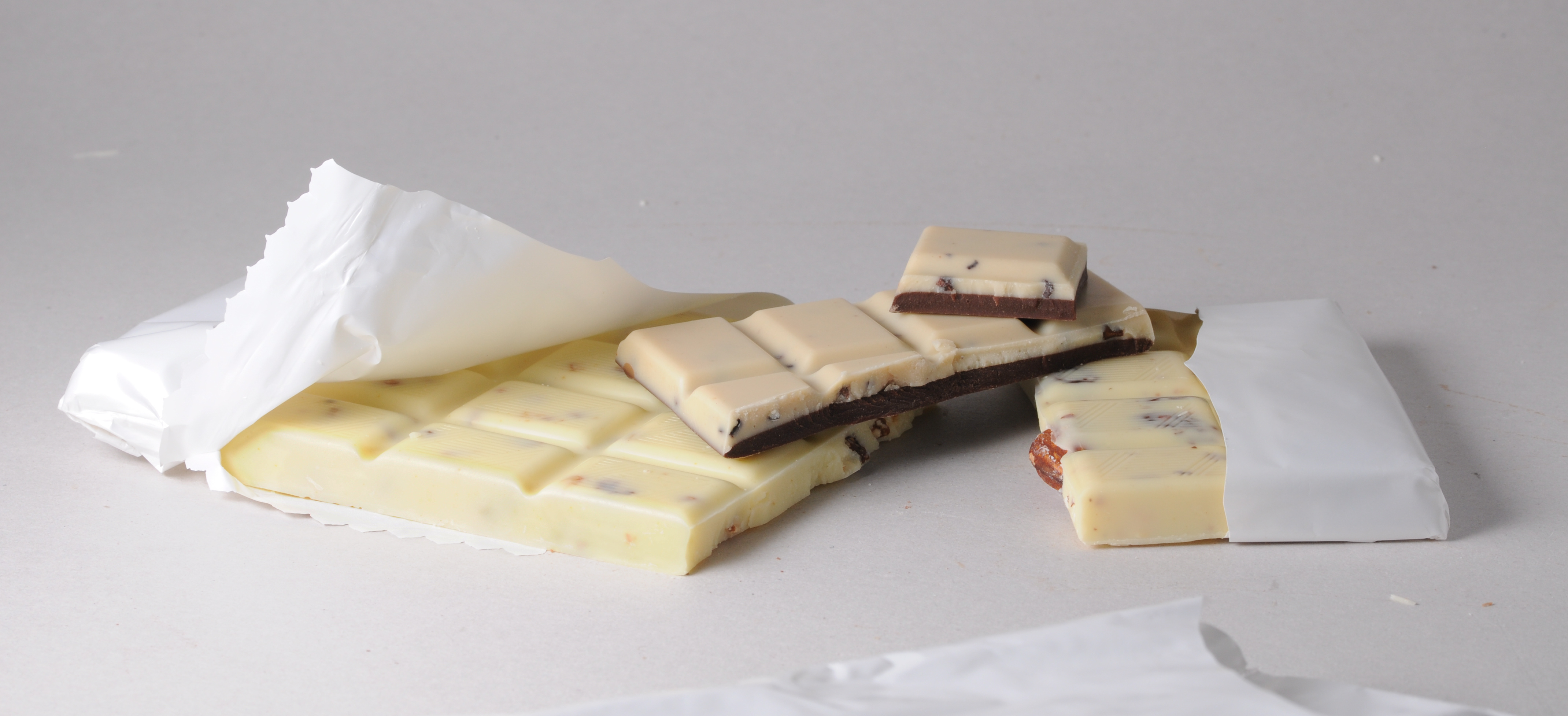 White Swiss chocolate. The lower bar contains hazelnut and grape pieces, the upper one is double-layered with brown coffee chocolate.